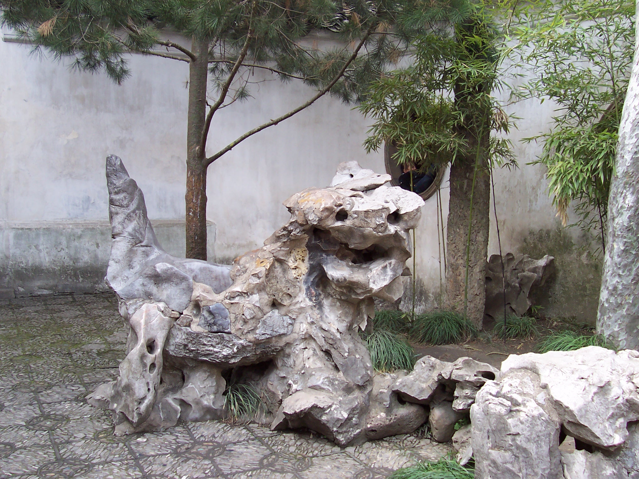 Stone Lion at Lion Grove Garden,Suzhou